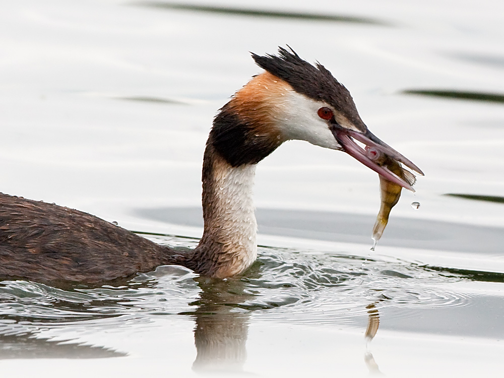 An adult Great Crested Grebe in Hogganfield Loch, Glasgow, Scotland. It has caught a fish, which it is holding in its beak.